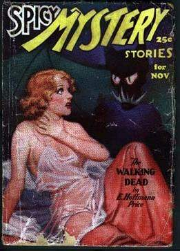 Cover of the pulp magazine Spicy Mystery Stories (November 1935, vol. 2, no. 1) featuring "The Walking Dead" by E. Hoffmann Price.